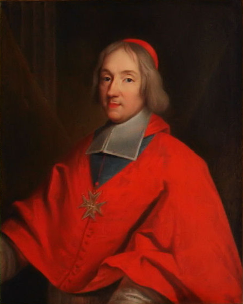 Portrait of Louis Antoine de Noailles (1651-1729)